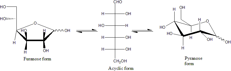 Existance_in_solution